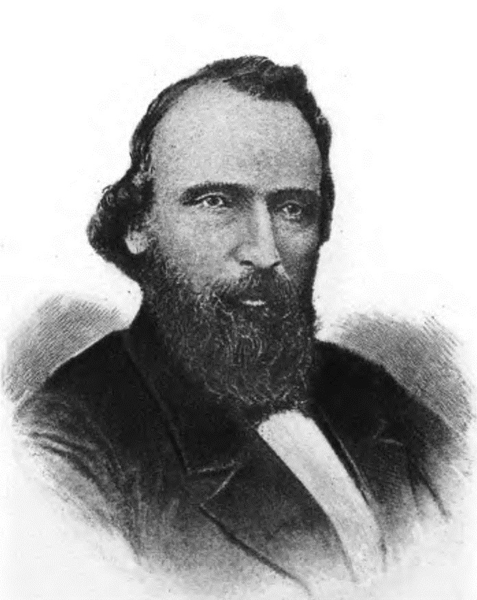 Henri-Frédéric Amiel from Amiel's Private Journal (1888).